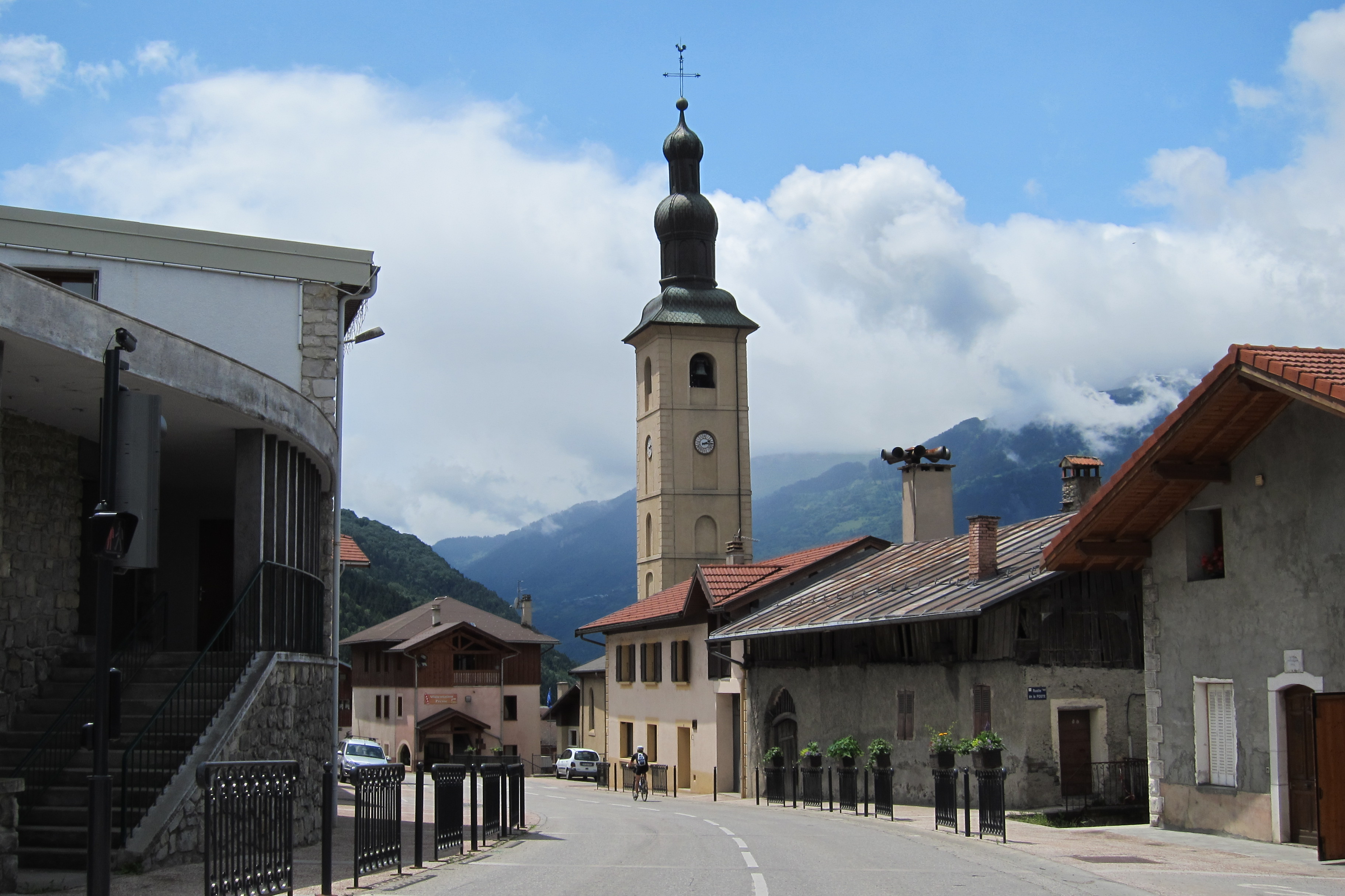 Church of Macot la Plagne in the Isere valley with nice sky